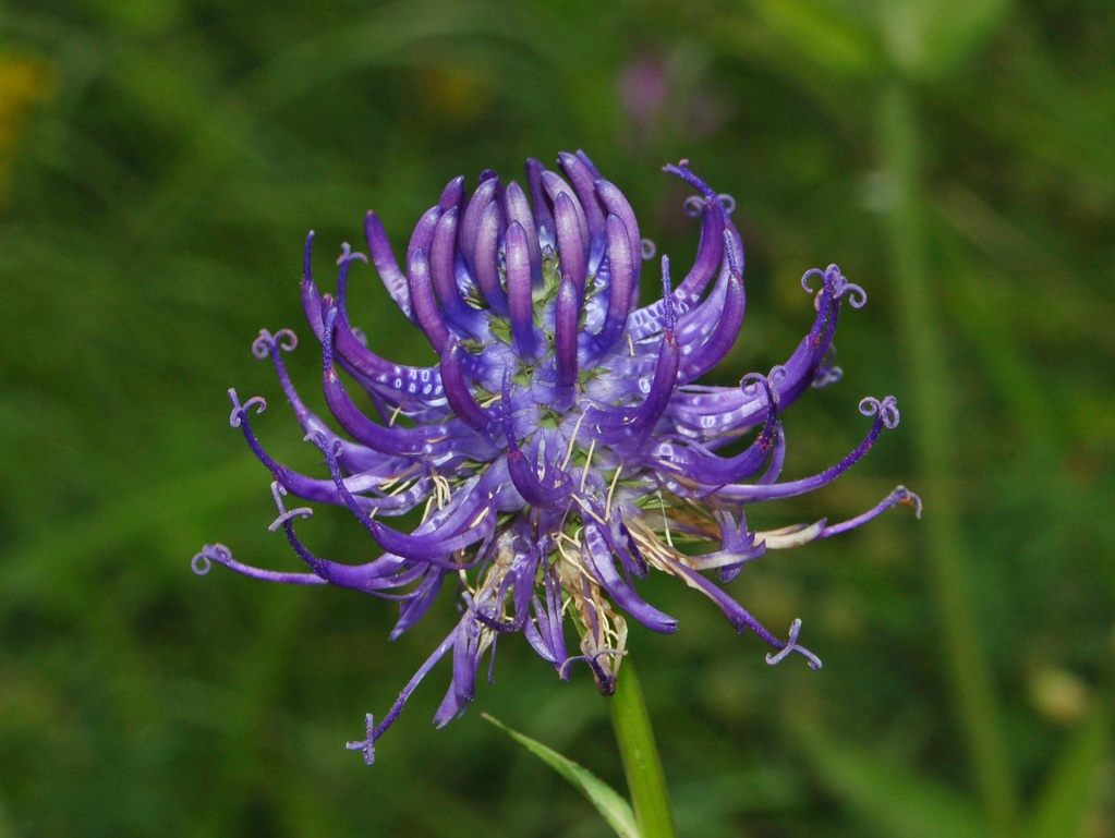 Phyteuma orbiculare - Val Noci, Genova, Italy